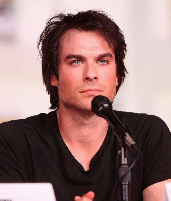 Ian Somerhalder at the 2012 Comic-Con in San Diego